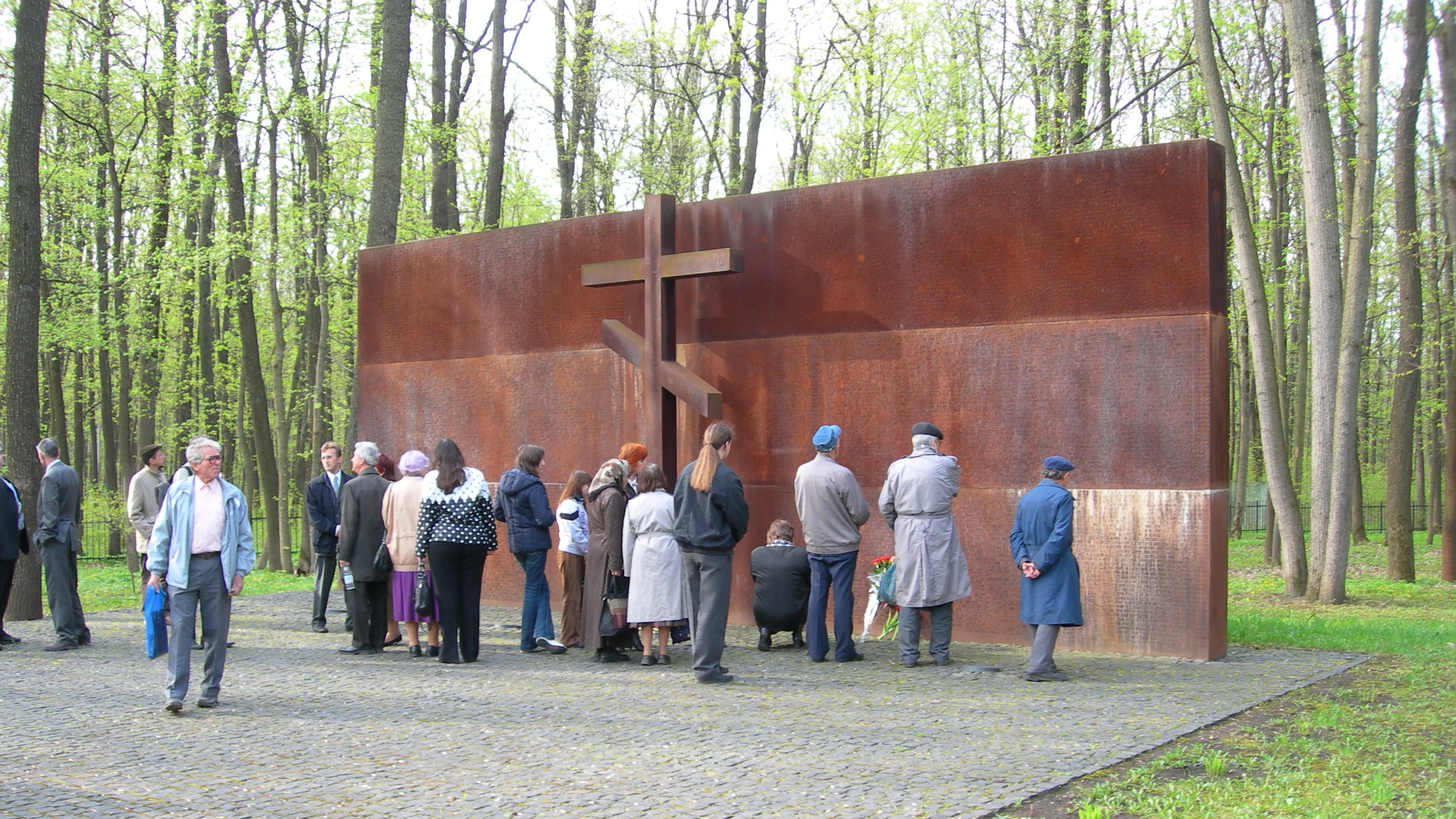 Monument to the thousands of Ukrainian intellectuals murdered by the NKVD in Pyatykhatky, on the outskirts of Kharkiv in 1937-8.